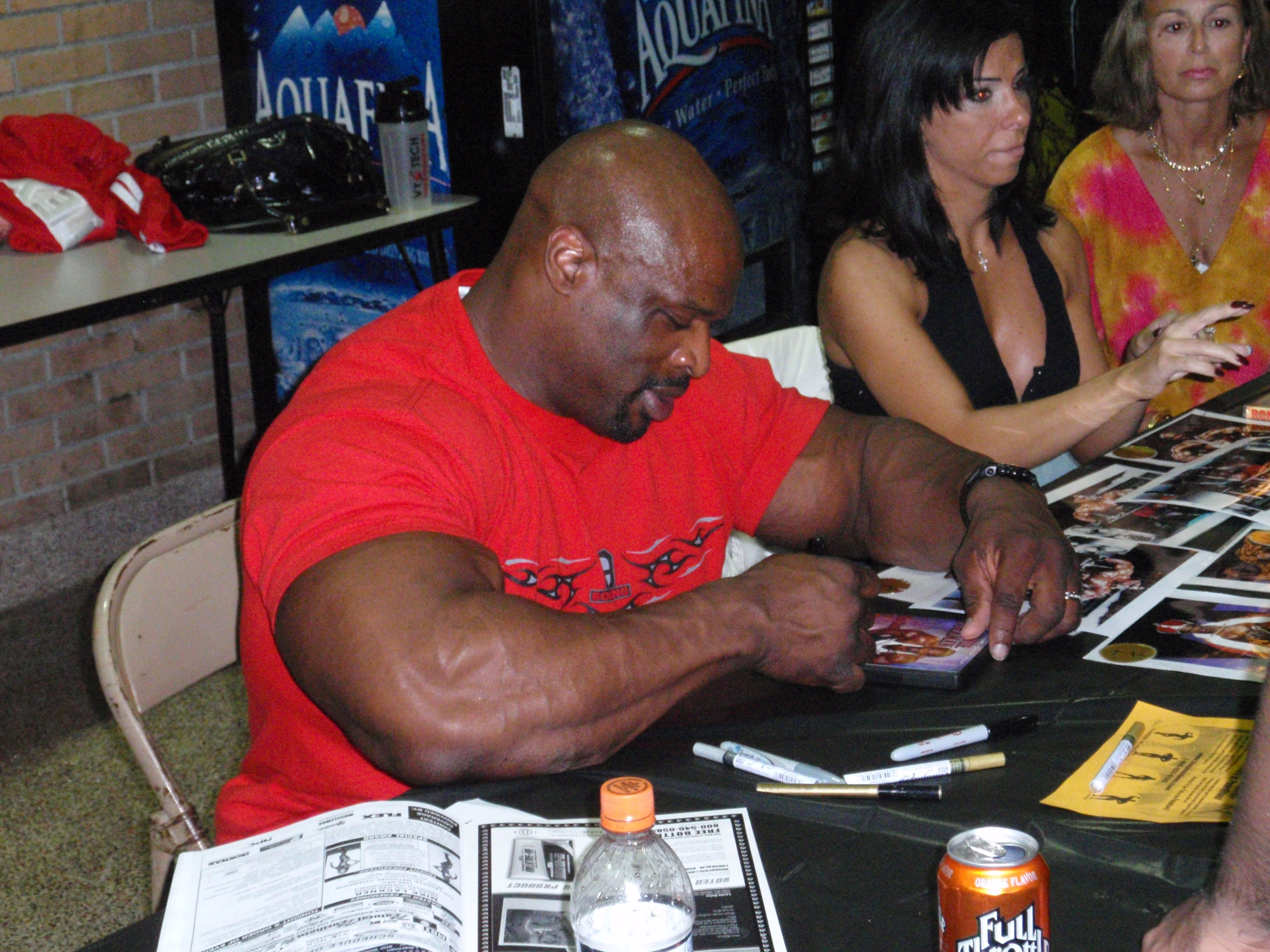 I'm pretty sure that's Ronnie's wife on his left.